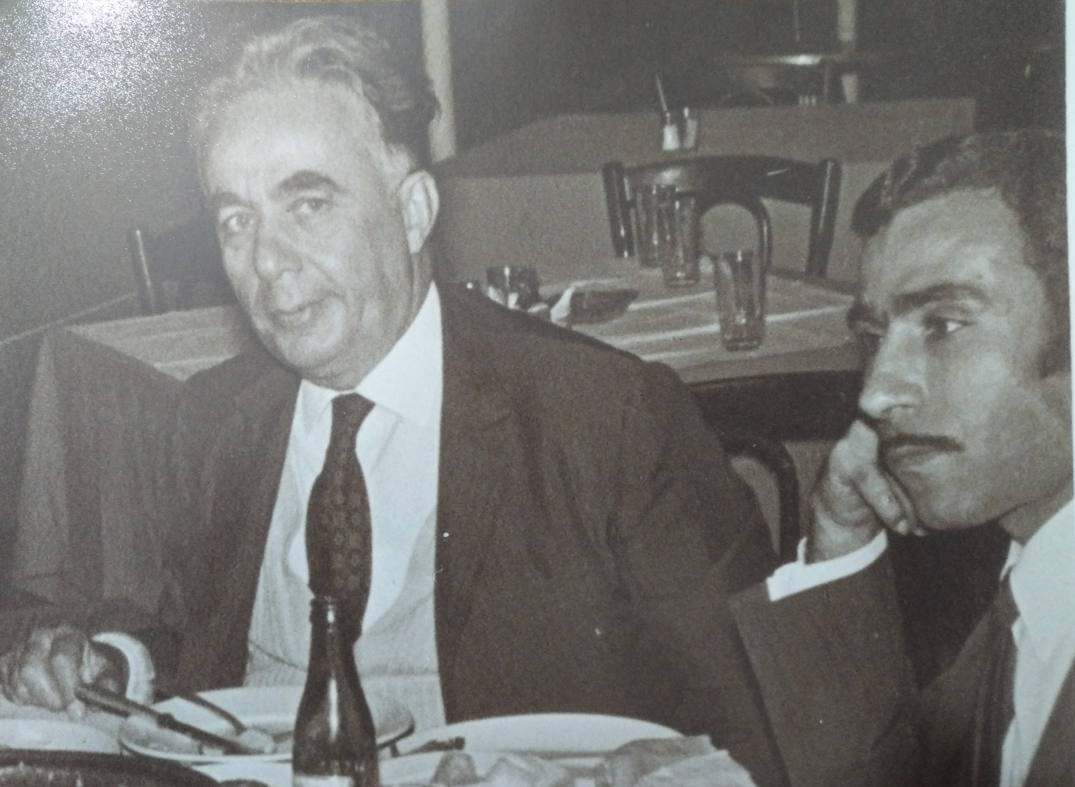 mounif and said akl